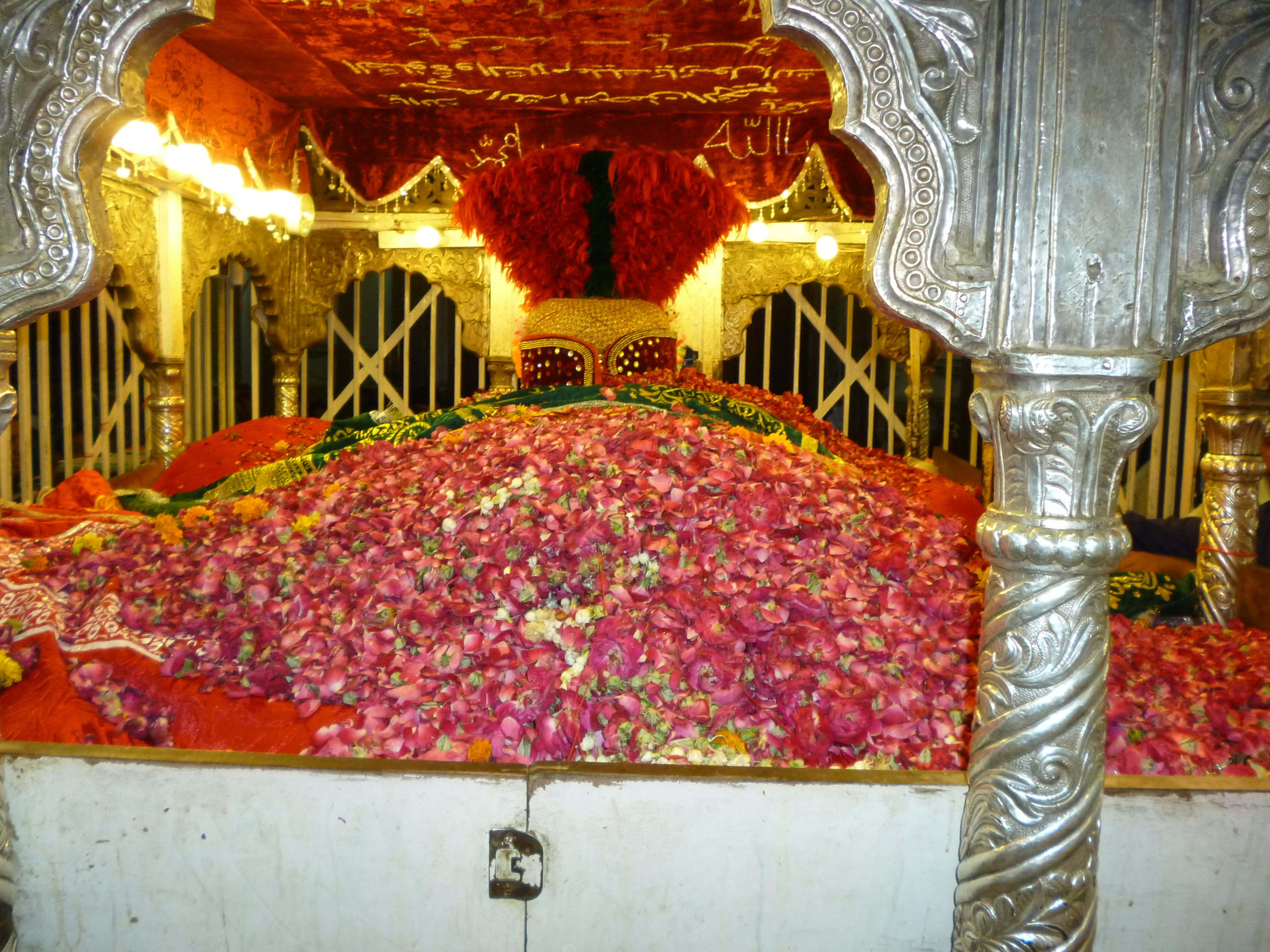 An original view of Laal Shahbaz Qalandar on 29-04-2012